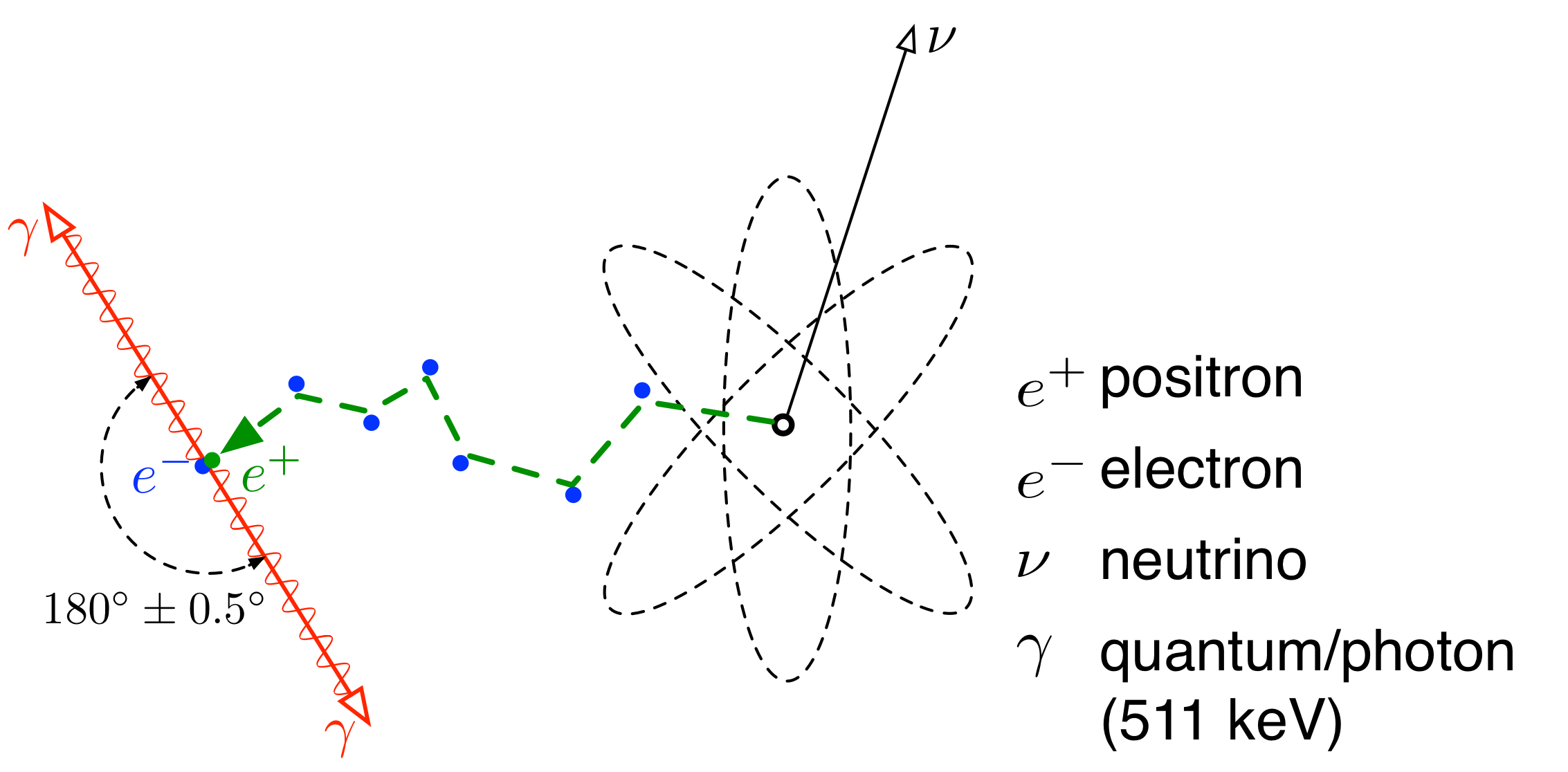 Image of the "annihilation" process known in elementary physics. It shows how a positron (e+) is emitted from the atomic nucleus together with a neutrino (v). The positron moves then randomly through the surrounding matter where it hits several different electrons (e-) until it finally loses enough energy that it interacts with a single electron. This process is called an "annihilation" and results in two diametrically emitted photons with a typical energy of 511 keV each. However, please note that under normal circumstances the photons are not emitted exactly diametrically (180 degrees). This is due to the remaining energy of the positron and therefore of the conservation of momentum.